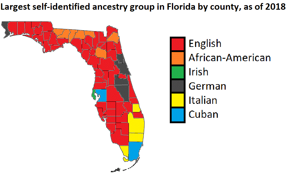 Pluralities of self-identified ancestry groups in Florida, as of early 2018